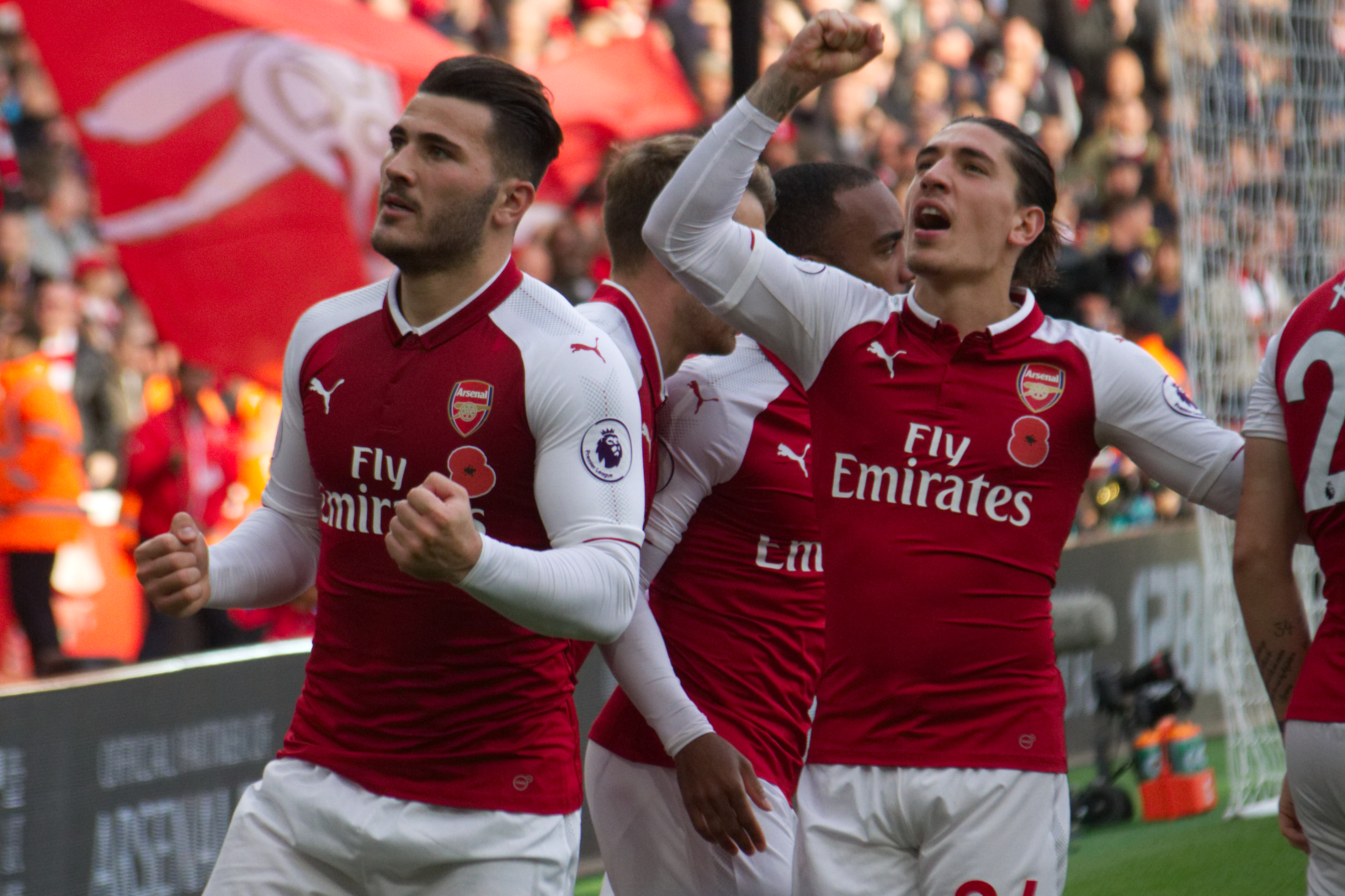 10 Kolasinac & Bellerin Goal celebrations IMG_3767